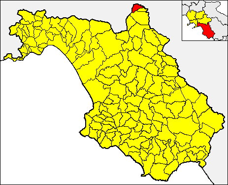 Locator map of the municipality of Castelnuovo di Conza (red) within the Province of Salerno